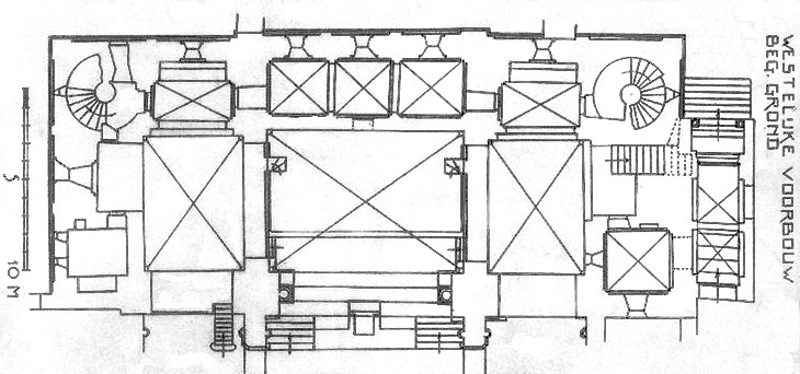 Floorplan of the ground level of the westwork of the Basilica of Saint Servatius in Maastricht, the Netherlands. The plan is based on a file donated to Wikimedia by Rijksdienst voor het Cultureel Erfgoed on 7 January 2013.